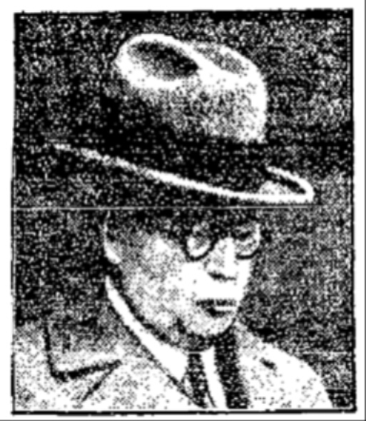 Paul Jorns (1871-1942), German jurist